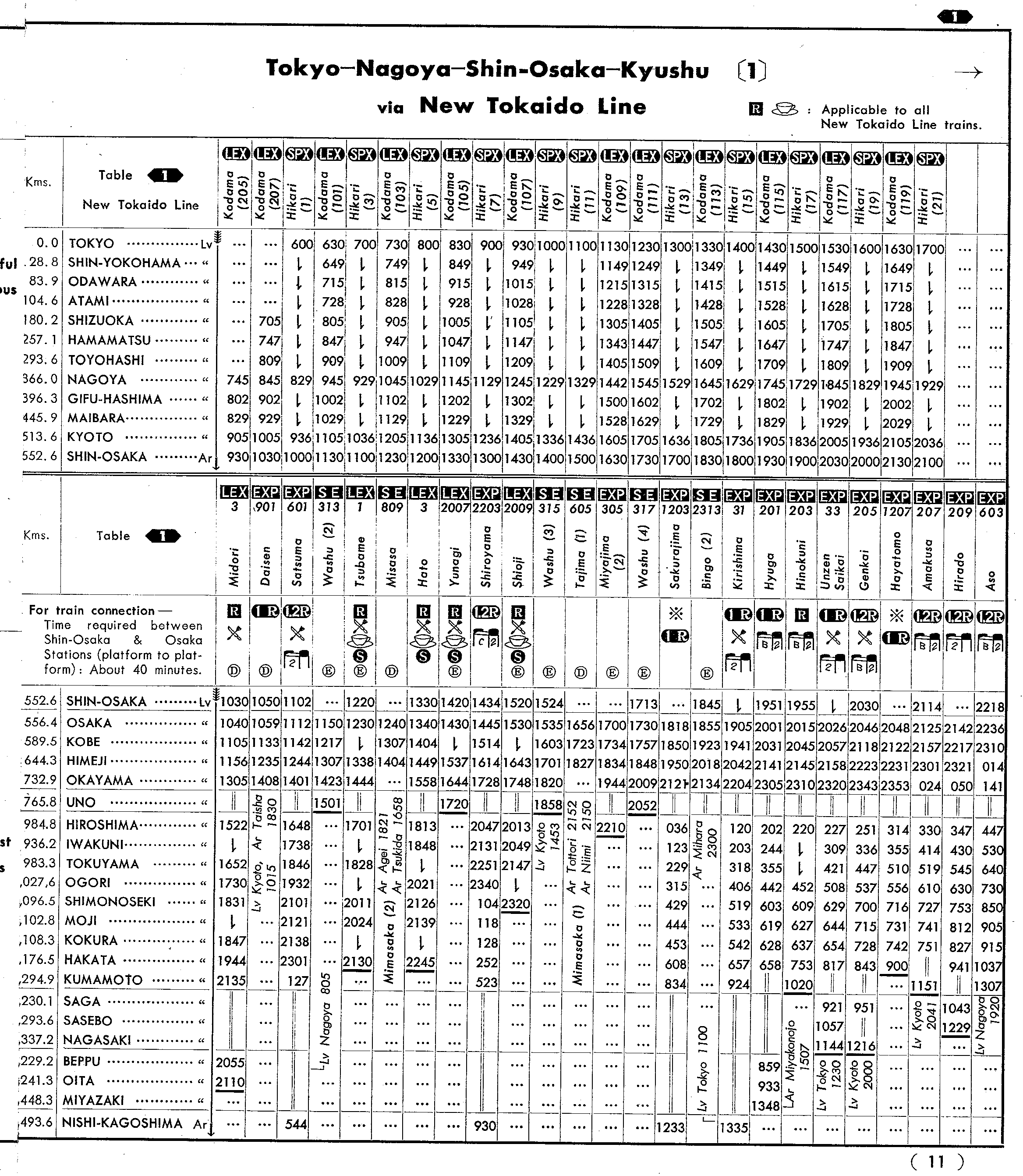 Japanese National Railways Passenger Timetable, Table 1, showing Shinkansen Service on the New Tokaido Line, which launched on October 1, 1964.